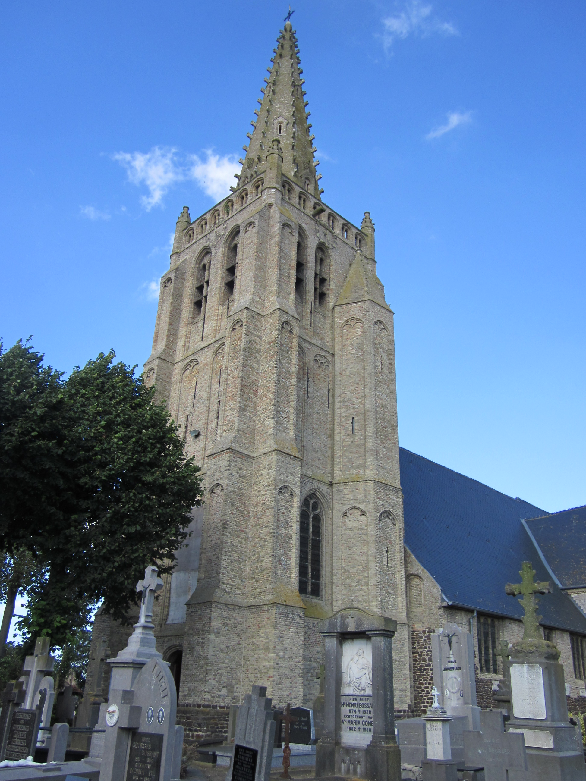 Saint Audomar Church in Vinkem (Veurne) Belgium